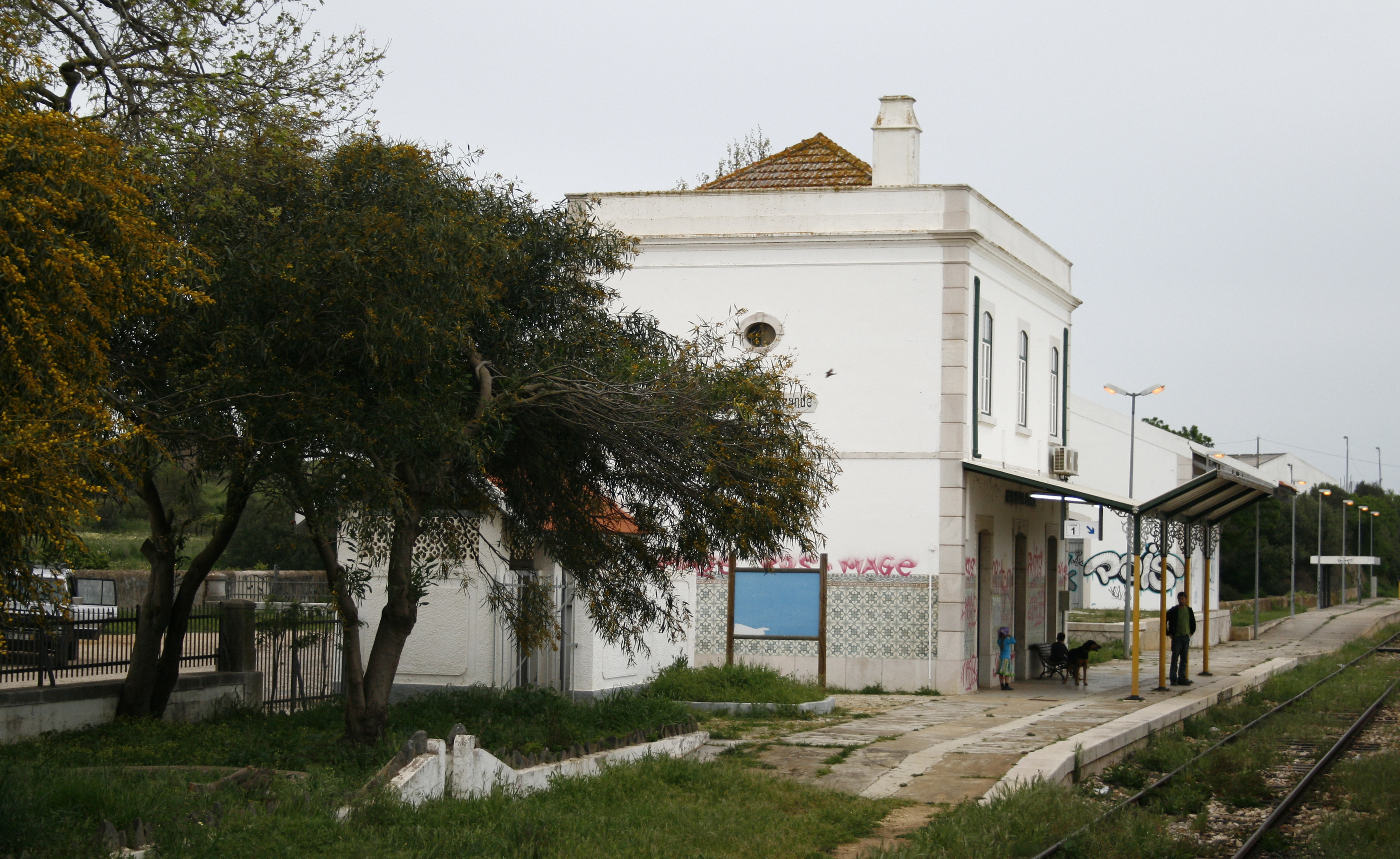 Mexilhoeira Grande train station, in the Algarve Line, in Portugal